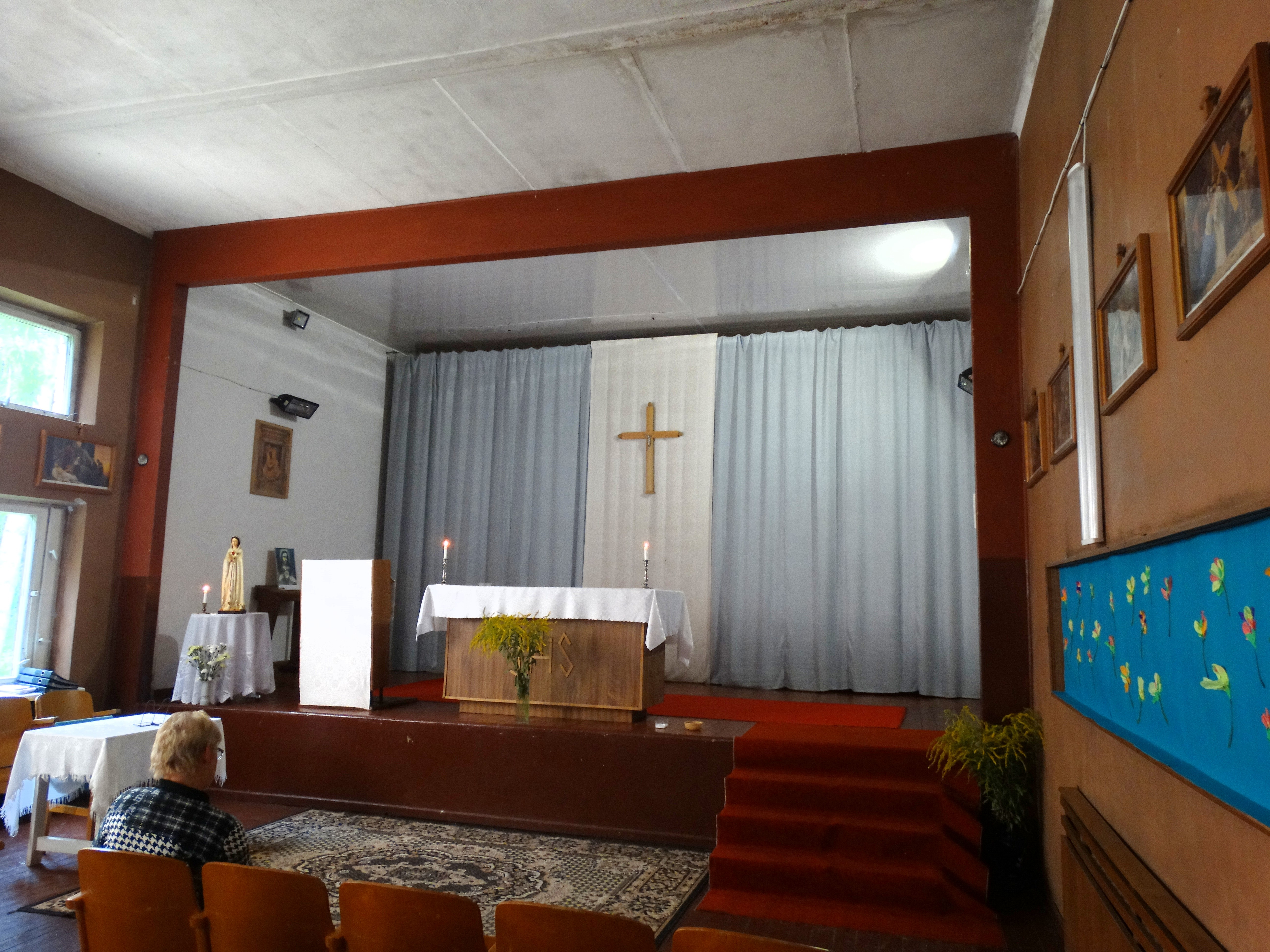 Chapel interior in Romainiai, Kaunas, Lithuania